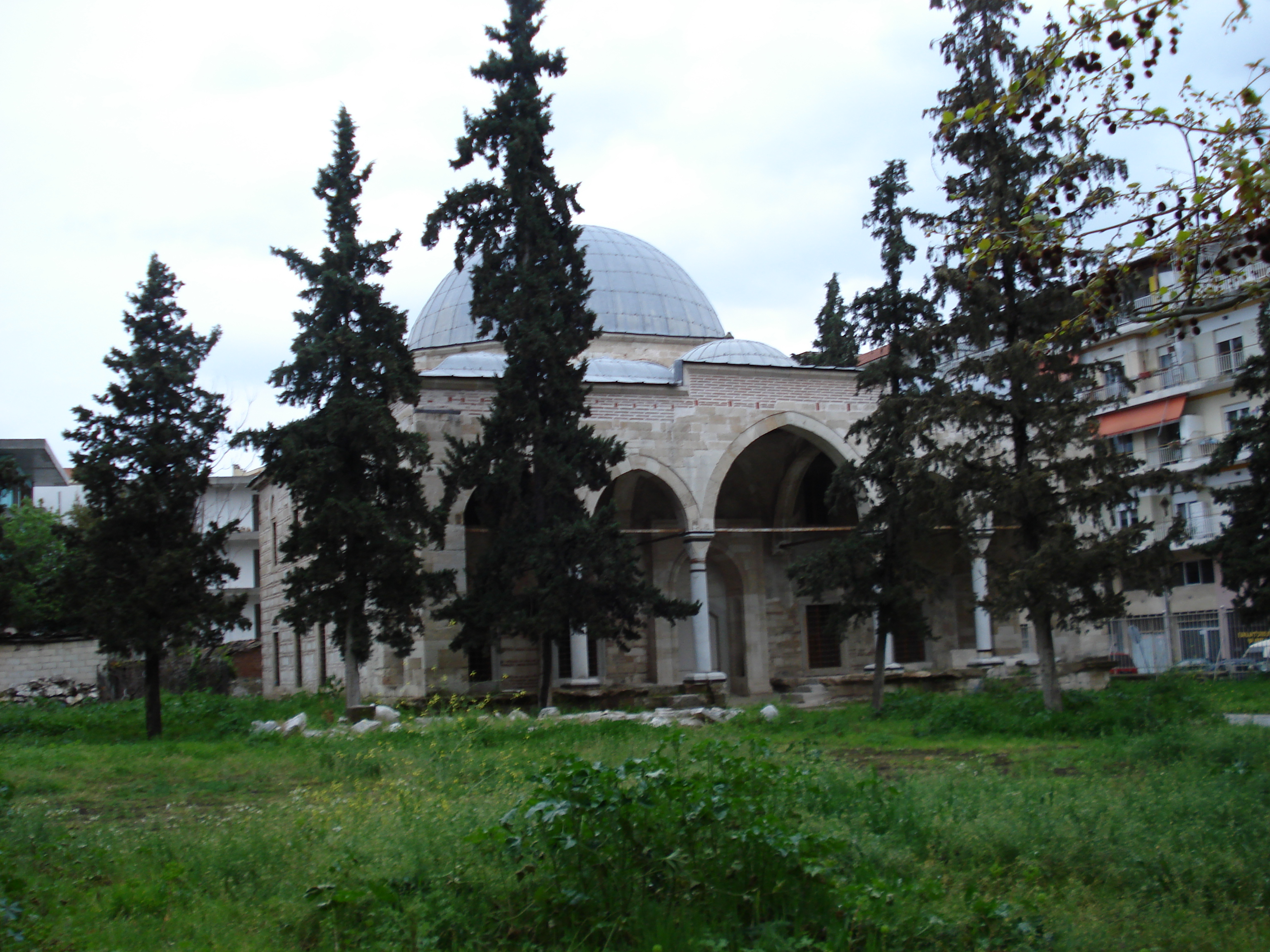 A mosque in Serres, Greece, from the late 16th century, Greece. It is known as the Zinjirli mosque (Ζιντζιρλί τζαμί).